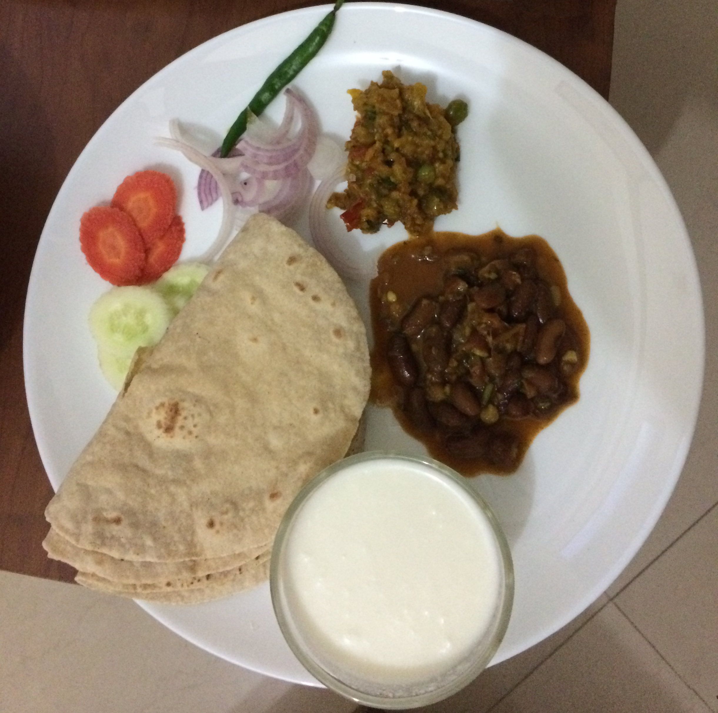 Roti / Chapati served with Beans, Karela subji, Curd, Chili and salad.